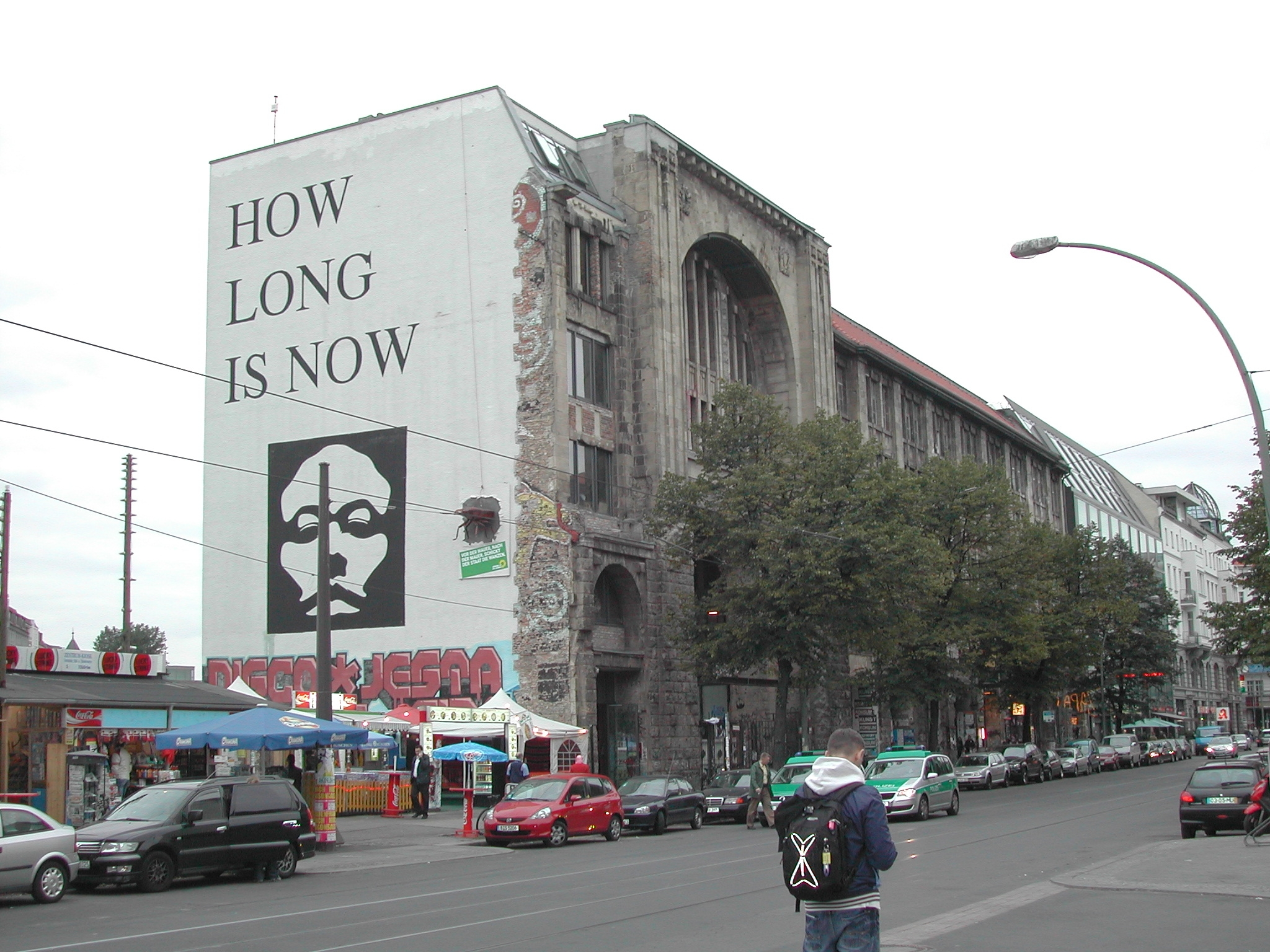 Berlin: Kunsthaus Tacheles - Tacheles Gallery